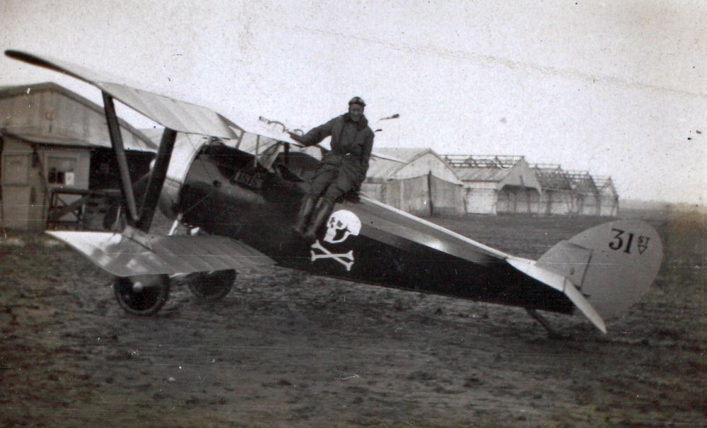 Nieuport 27 of 31st Aero squadron with fancy paint job